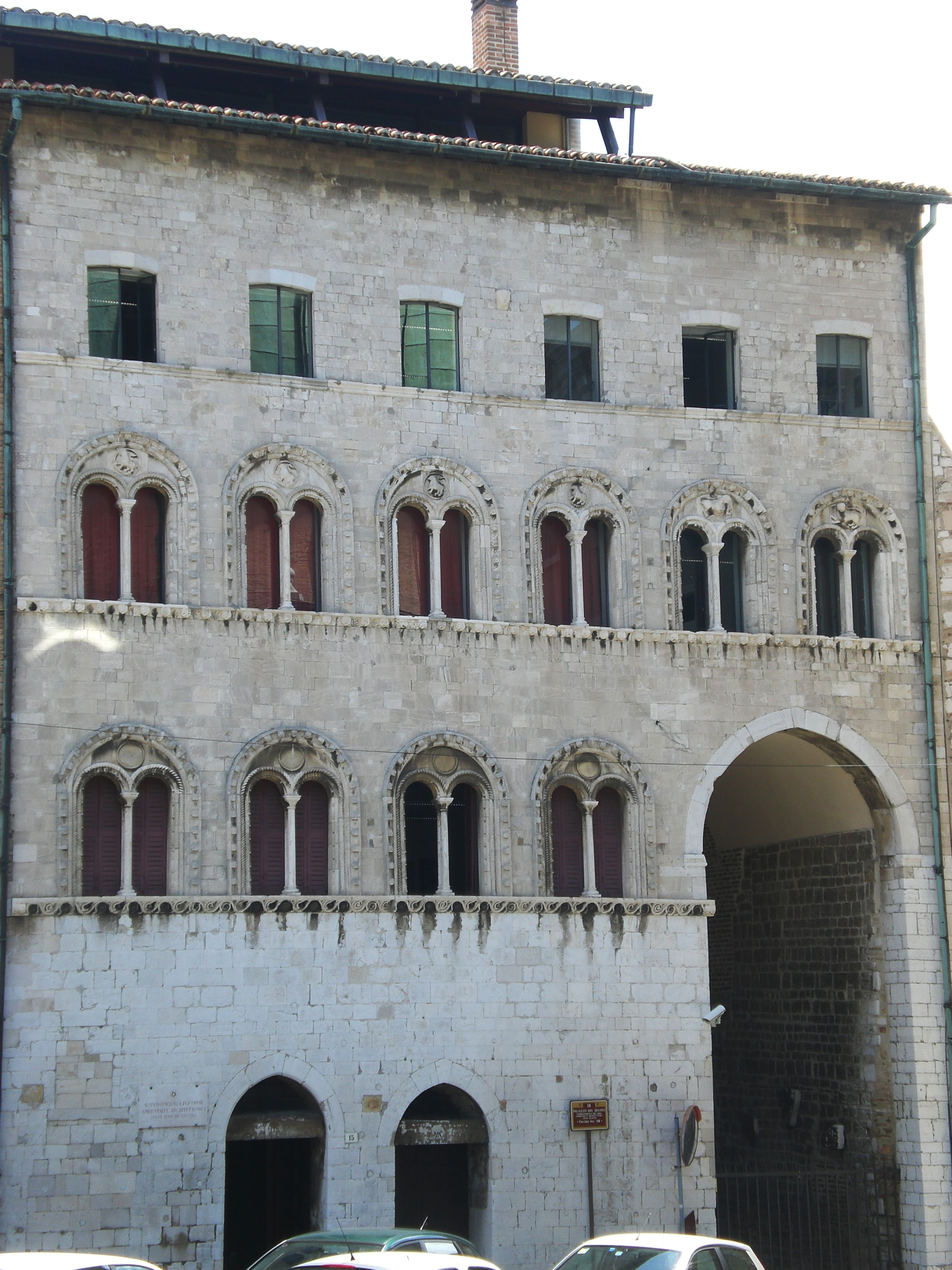 Ancona, Senate Palace, XIII century